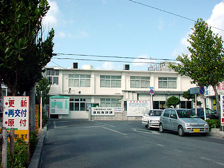 Okinawa Prefectural Police Driver's License Section